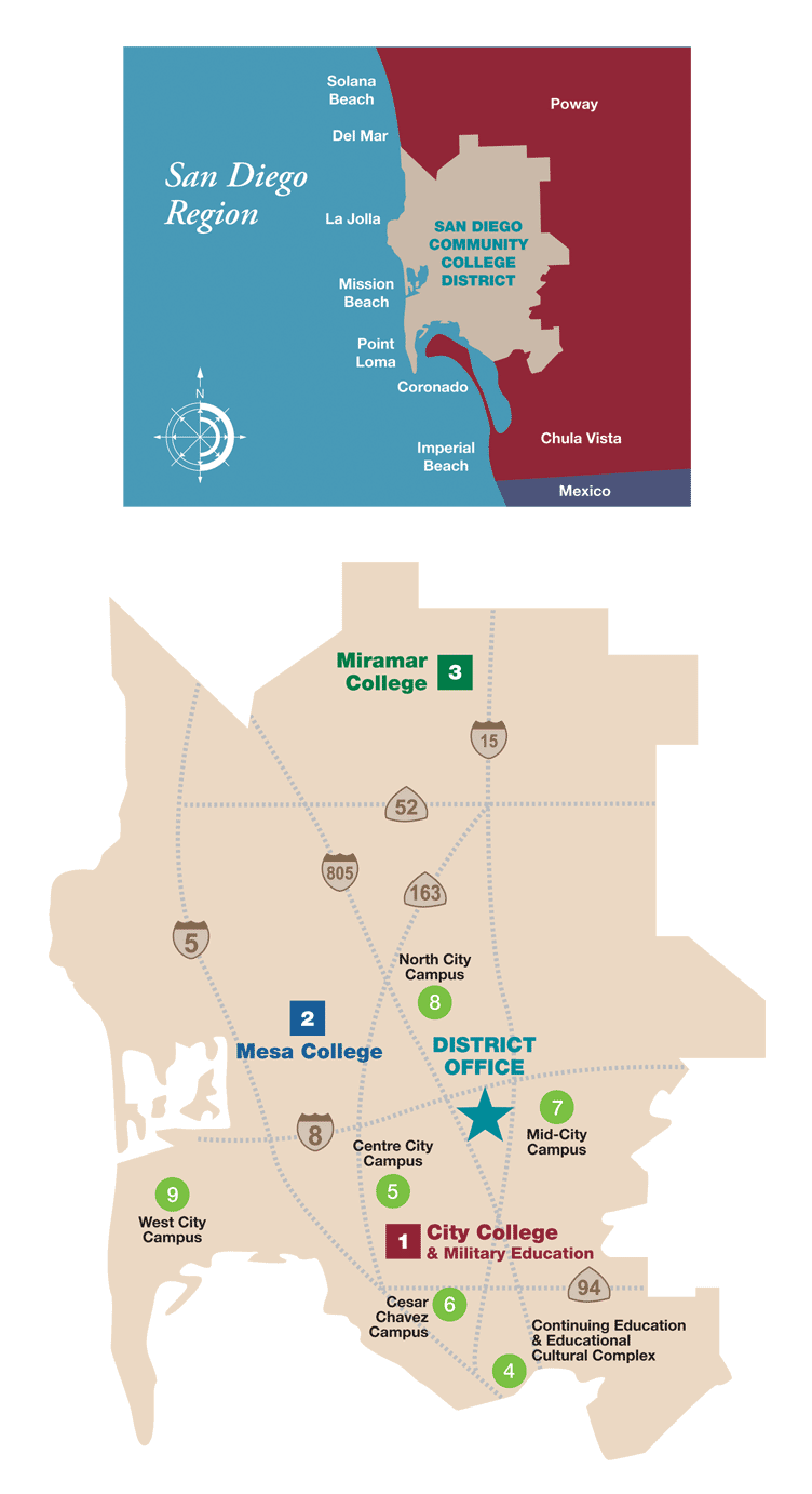 Graphic showing the location of each San Diego Community College campus, each San Diego Continuing Education campus and the date they were established; as well as the District's HQ Offices.